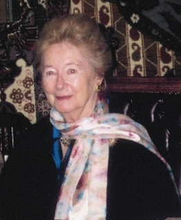 Photo of Prof.Anna-Teresa_Tymieniecka